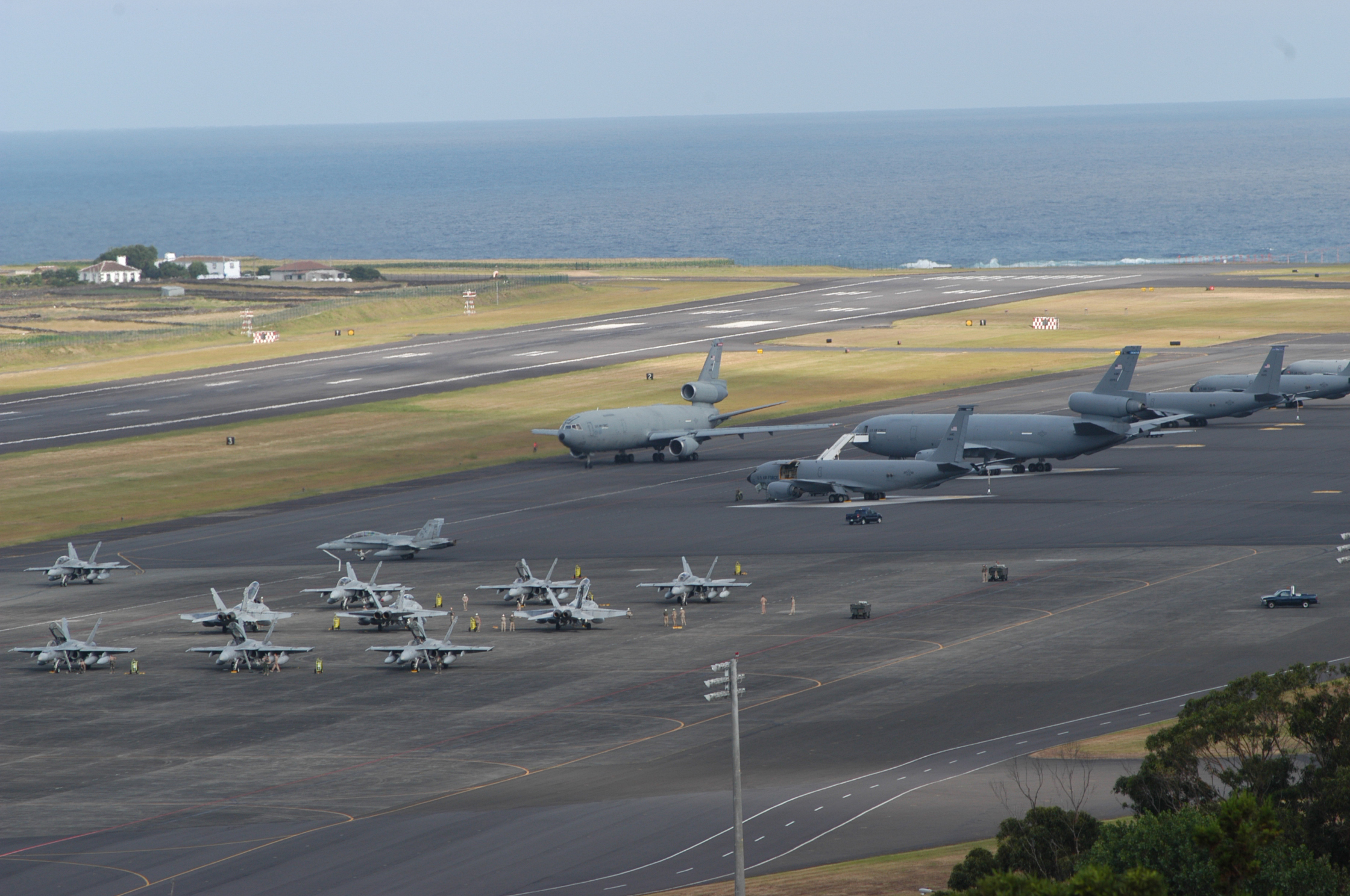 Lajes Field, Terceira Island, Azores, Portugal KC-135, KC-10 and F/A-18 aircraft on the tarmac. The 65th Air Base Wing is the American unit stationed at Lajes Field and it is the largest U.S. military organization in the Azores. The wing provides base and en route support for Department of Defense, allied nations and other authorized aircraft in transit, including those from the Netherlands, Belgium, Canada, France, Italy, Colombia, Germany, Venezuela and Great Britain. source